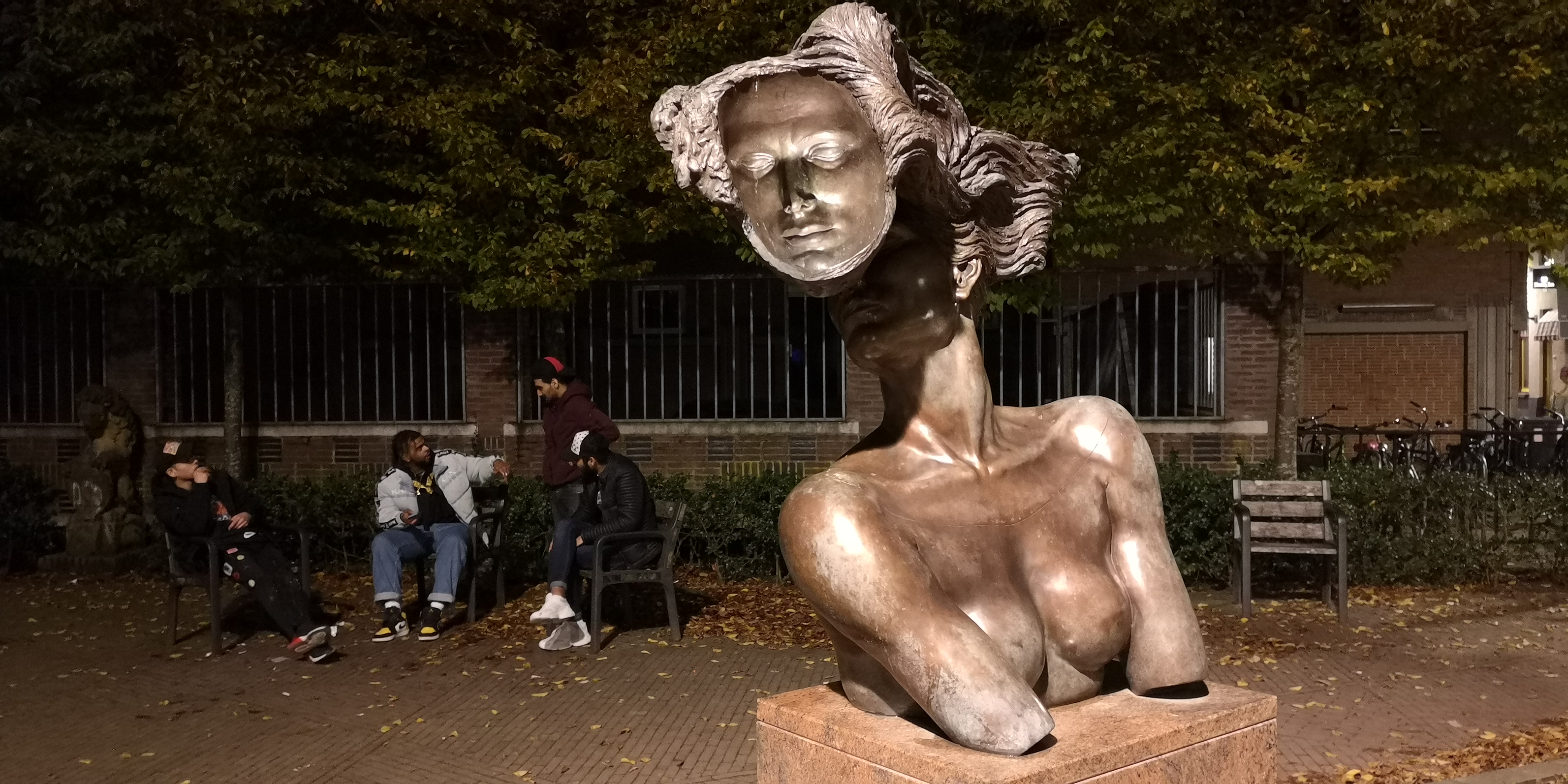 Helga Deentuin (Helga Deen Garden), Tilburg by night. Sculpture Connection (Anima Animus) by Margot Homan